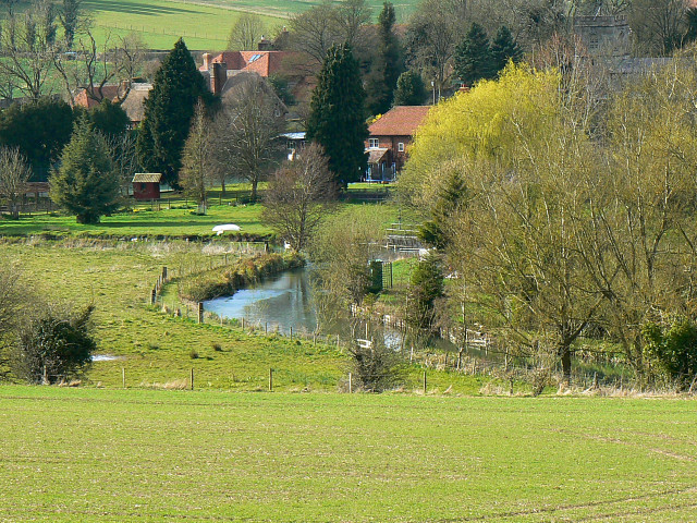 River Kennet, Mildenhall The river can be seen beyond a germinating crop, probably cereal. The church visible at the upper right is St John's.